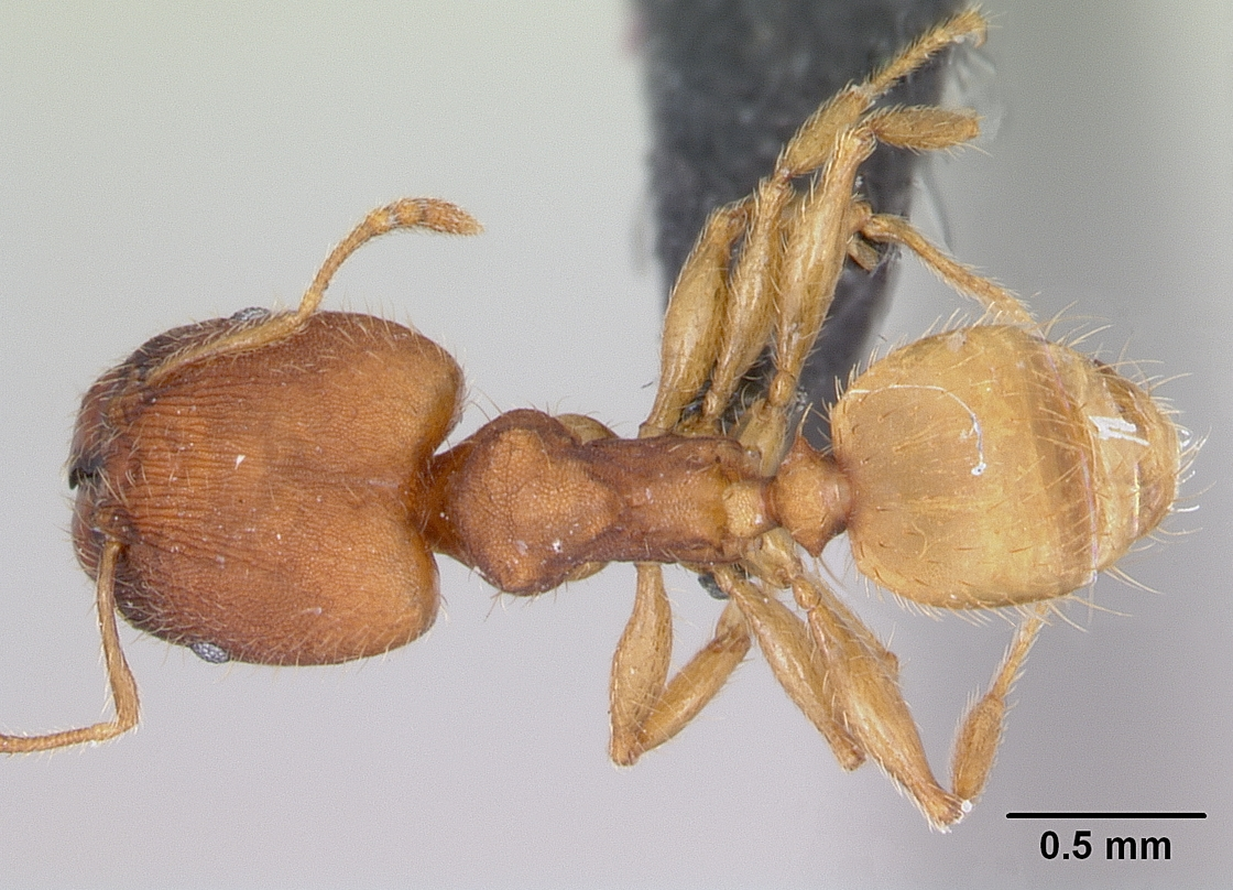 Dorsal view of ant Pheidole bilimeki specimen casent0173659.